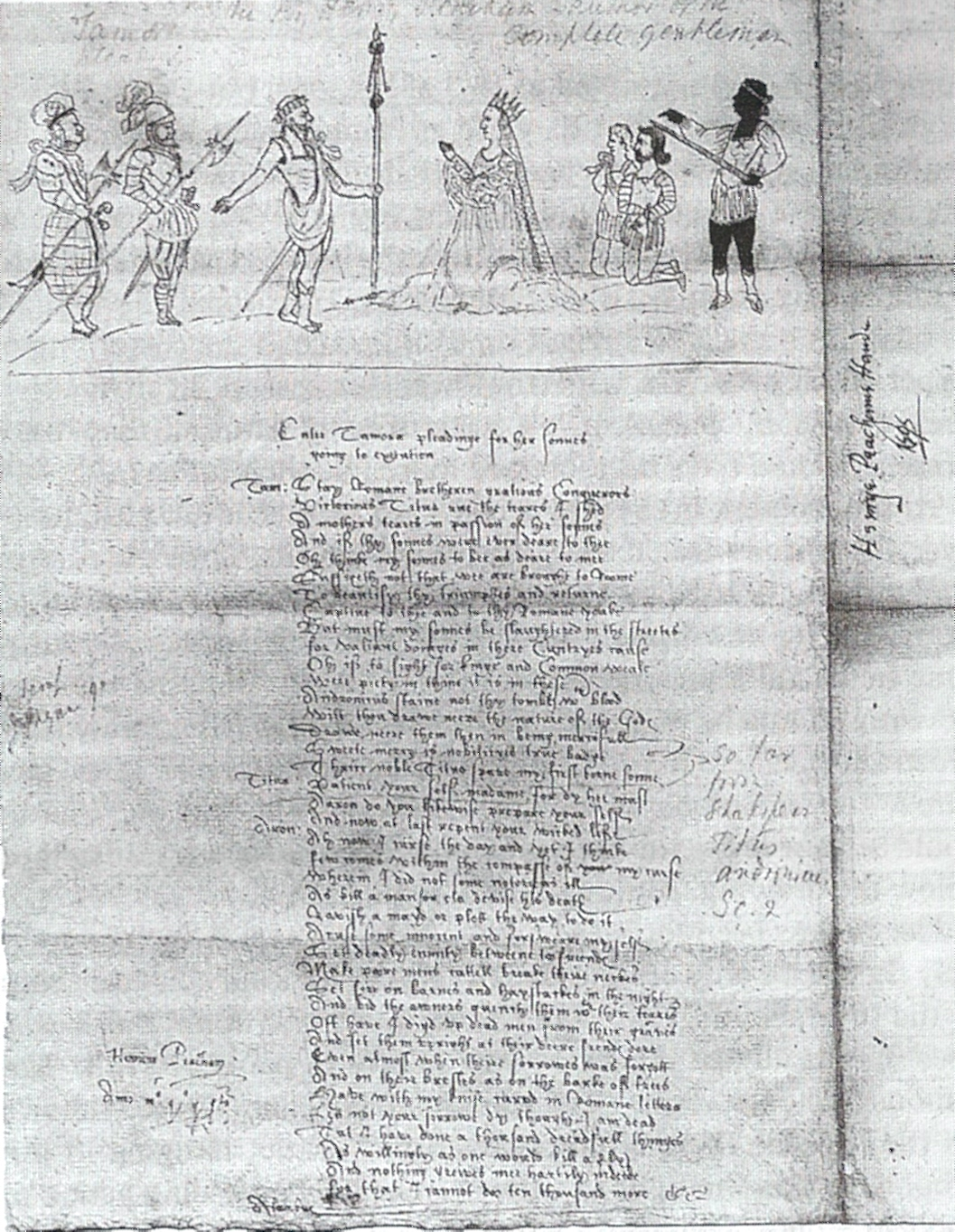 Henry Peacham's illustration of lines from Titus Andronicus